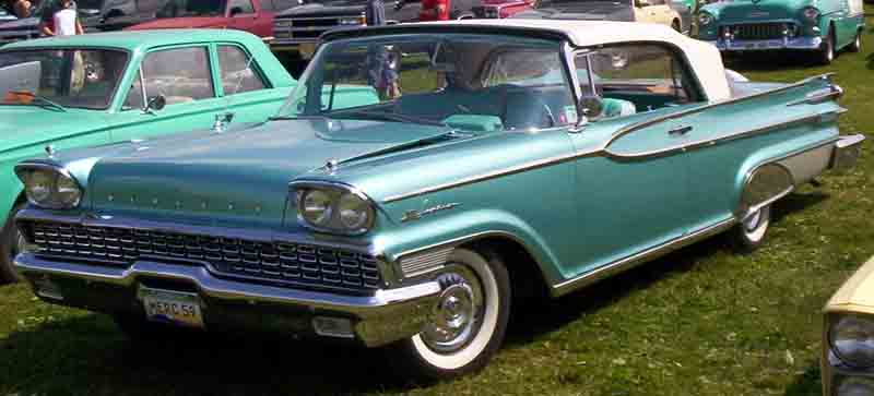 1959 Mercury Monterey